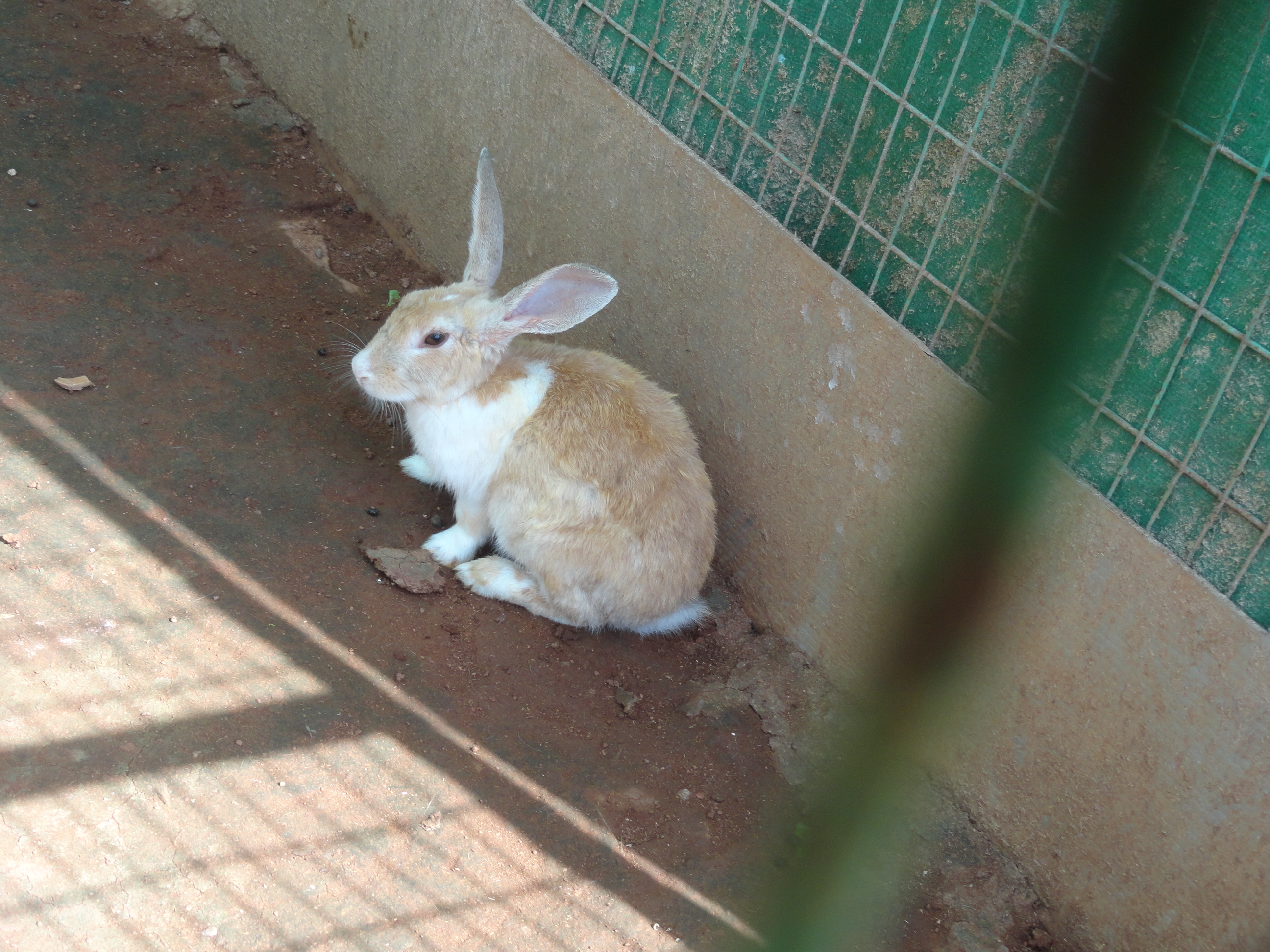 కుందేలు